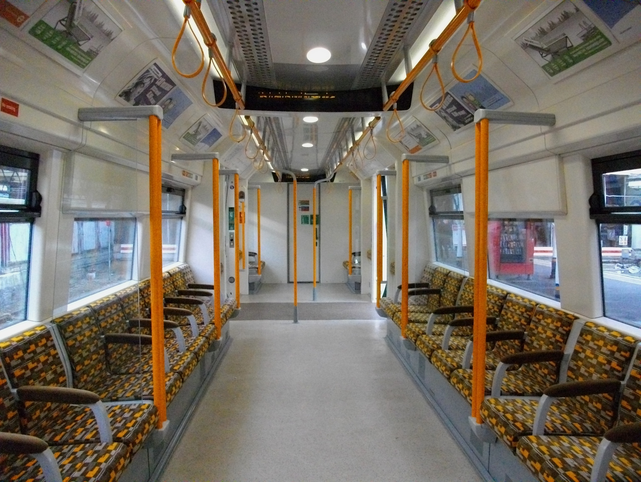 The basic and spacious interior of a brand new London Overground Bombardier Class 378 Capitalstar.